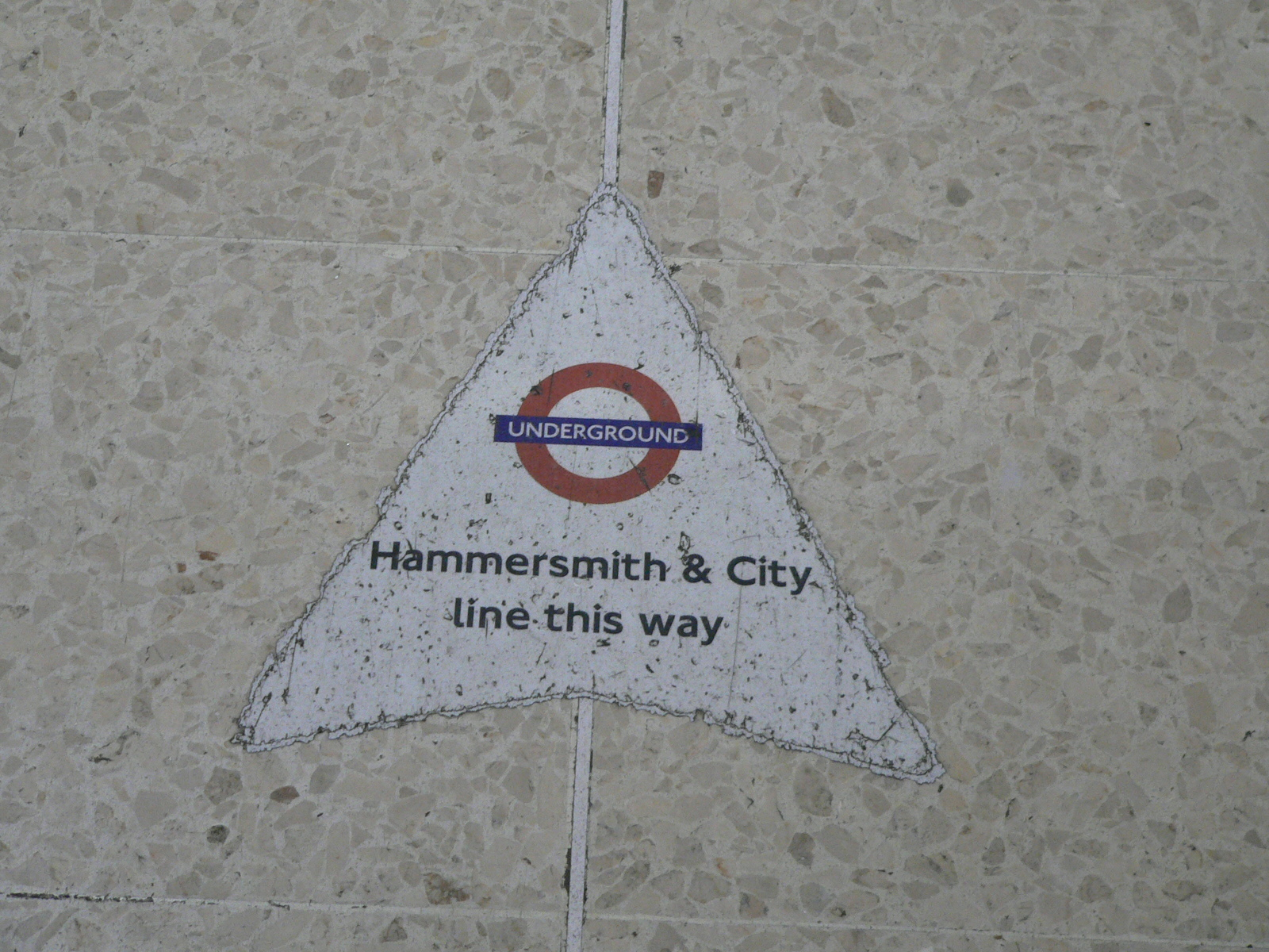 These arrows are on the floor of the bridge from the mainline station at London Paddington that leads to the adjacent London Underground Hammersmith and City Line station.